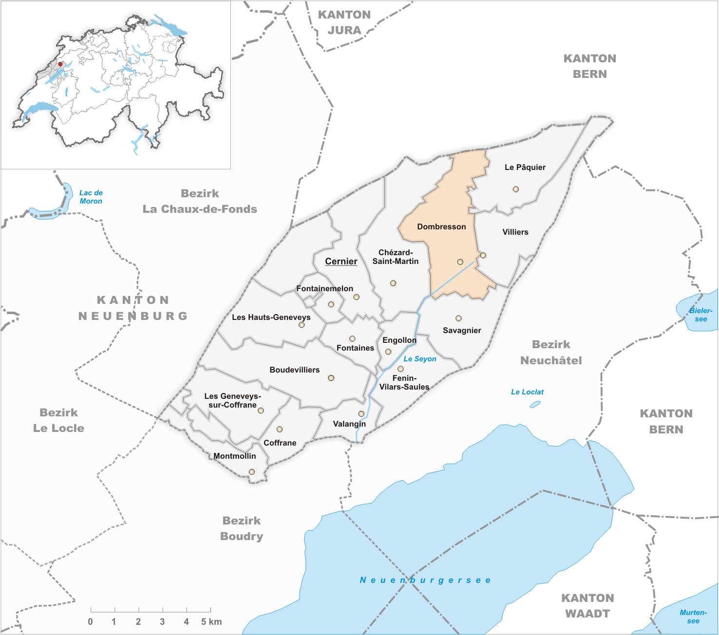 Municipality Dombresson